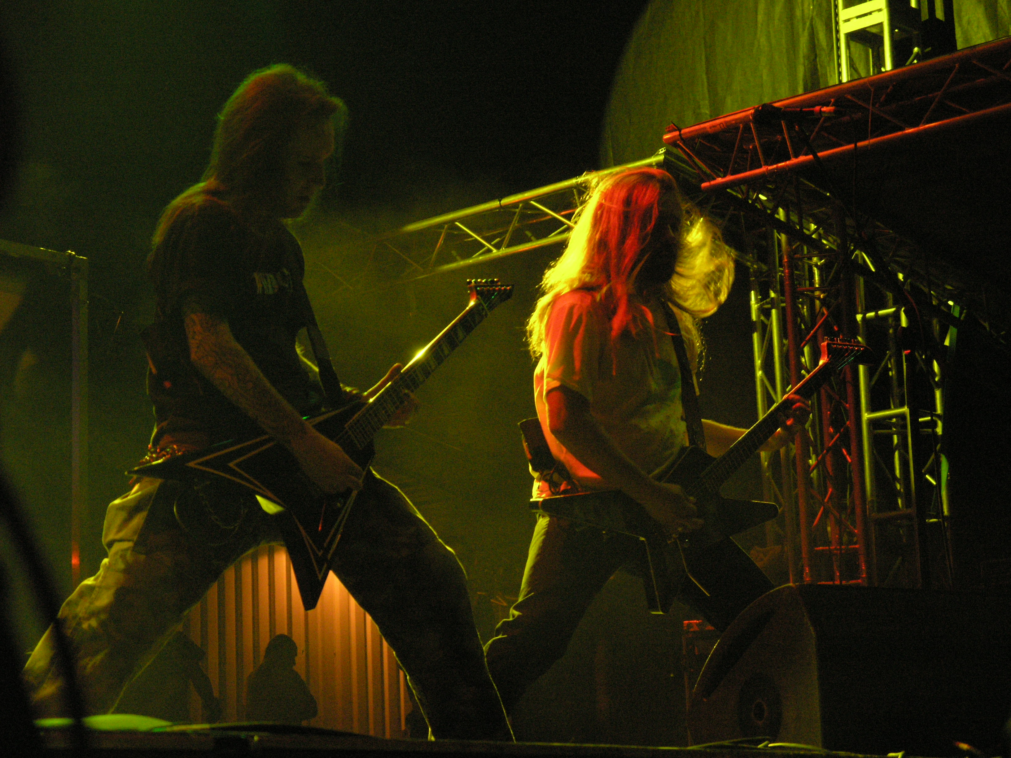 Music band Children of Bodom during Masters of Rock 2007 festival